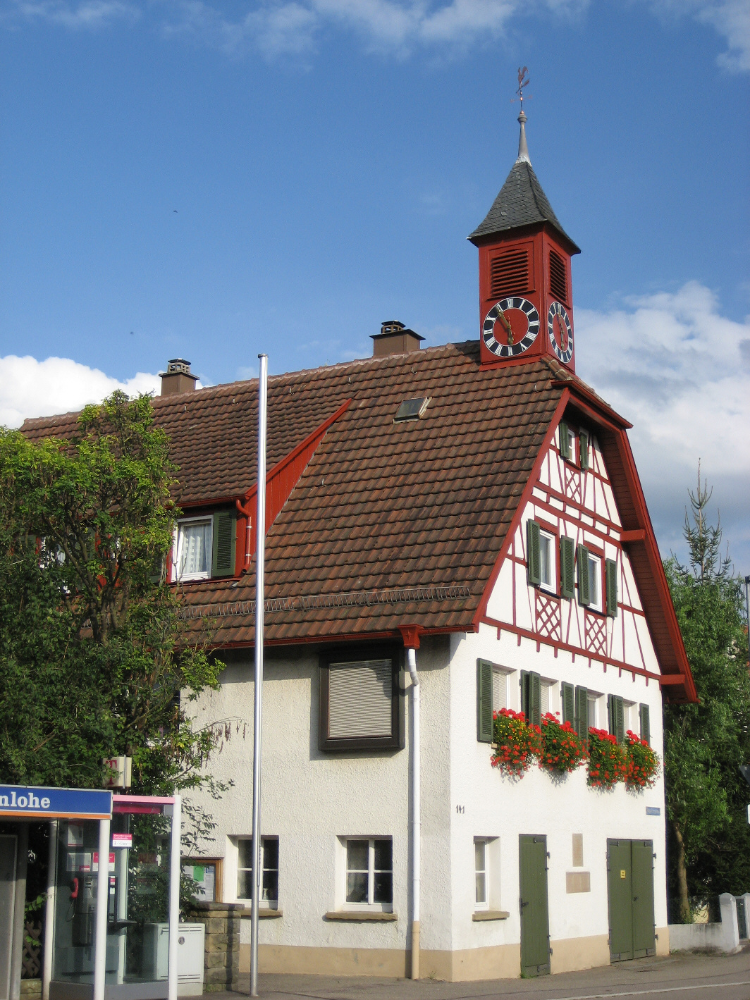 Cappel(Hohenlohe), Rathaus